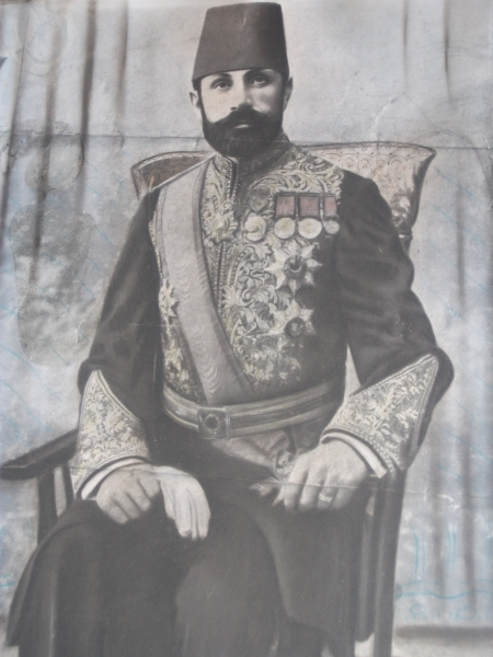 Vali of Sivas, Council of State, and cabinet minister in the Ottoman government